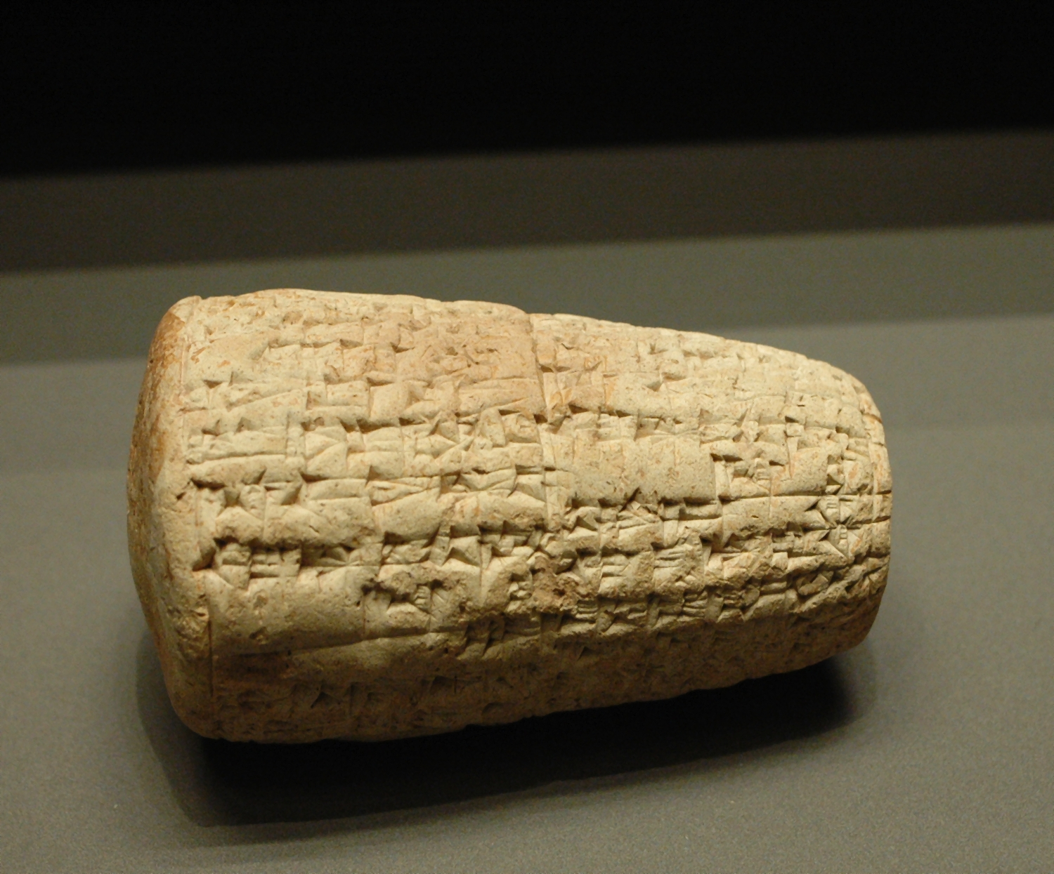 Inscripted clay cone commemorating the construction of the walls of Sippar by King Hammurabi. Terracotta, first half of the 18th century BC.